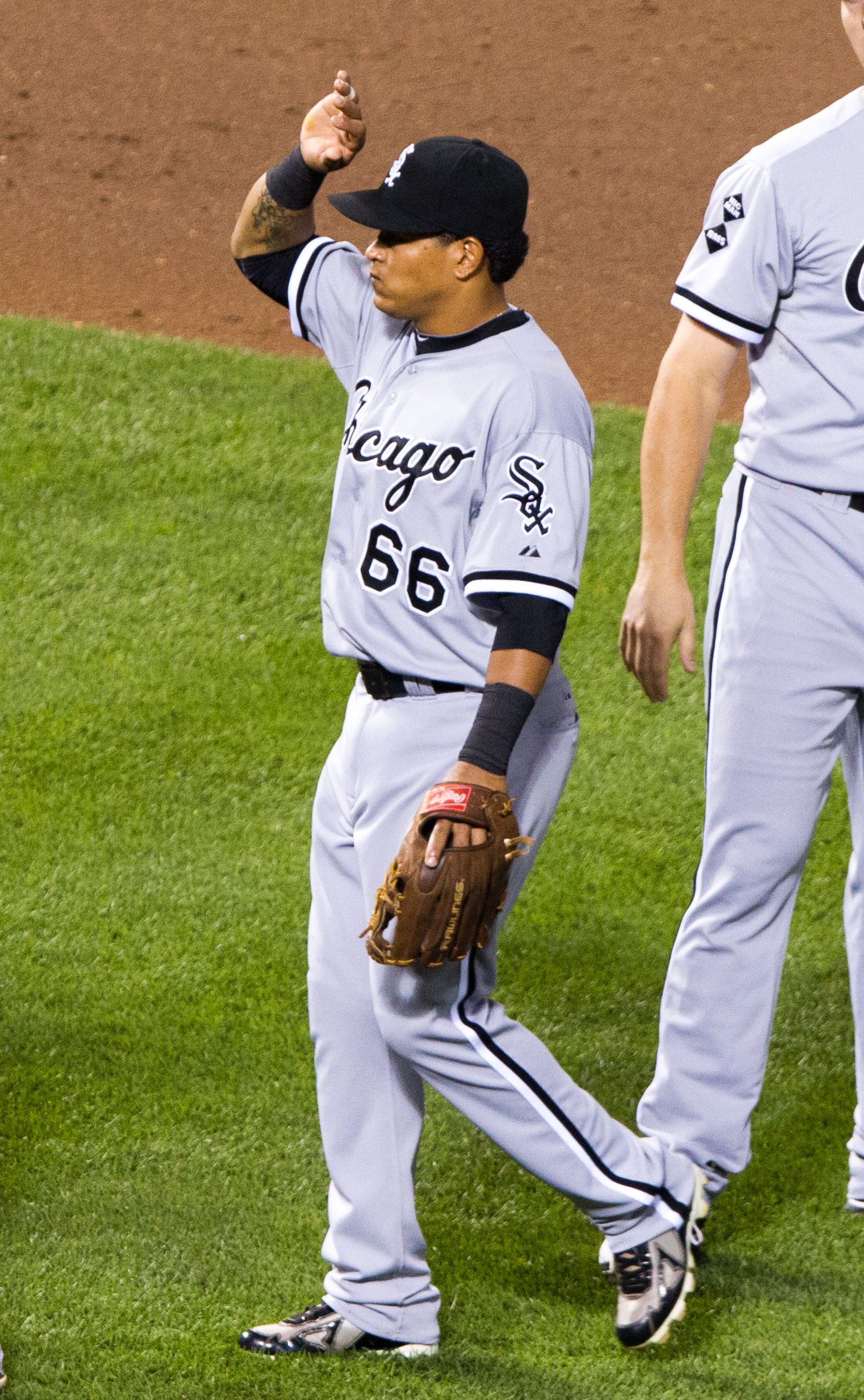 Ray Olmedo